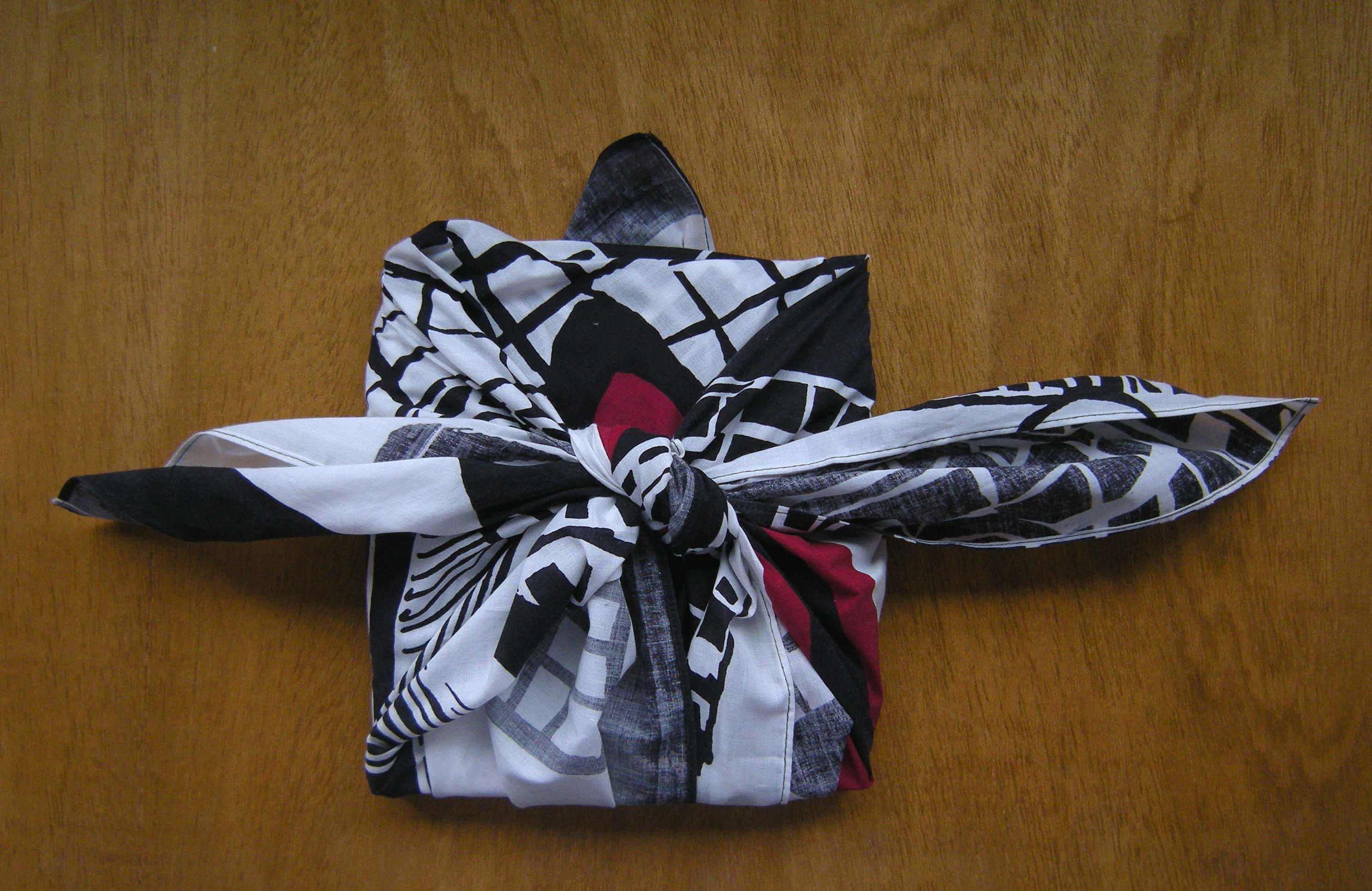 See filename. Size of the piece of cloth is 90×90 cm.